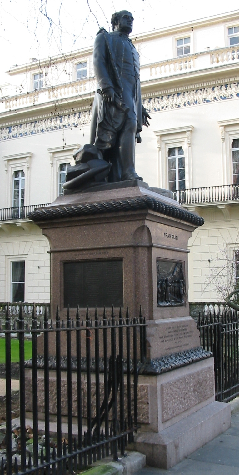 John Franklin statue in London